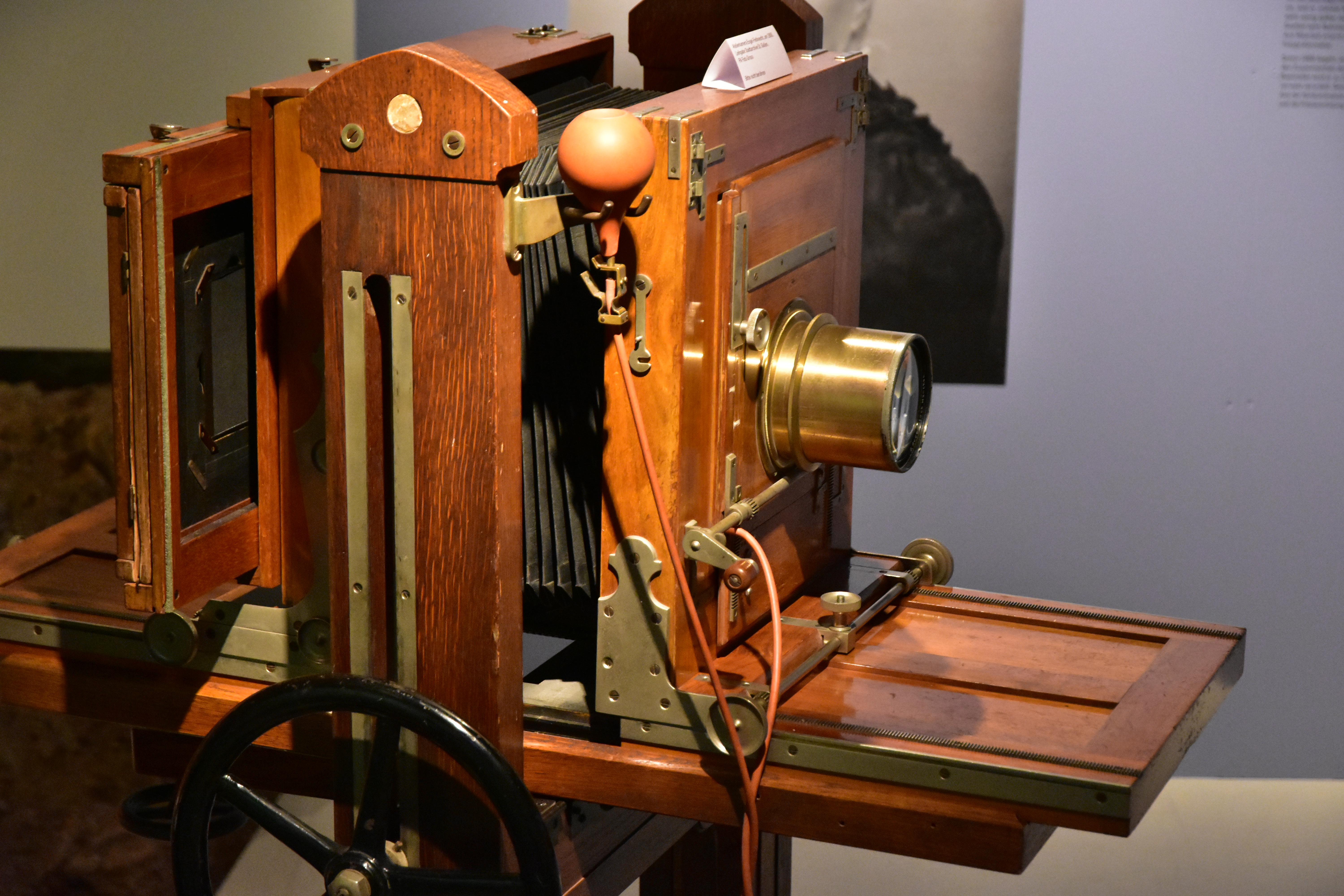 Collection of the Stadtmuseum) in Rapperswil (Switzerland): Ausstellung Der Zeit voraus. Drei Frauen auf eigenen Wegen. Marianne Ehrmann-Brentano Schriftstellerin und Journalistin (1755–1795) ++ Alwina Gossauer Fotografin und Geschäftsfrau (1841–1926) ++ Martha Burkhard Globetrotterin und Malerin (1874–1956) : Aterlierkamera Engel-Feitknecht um 1890 PA_Foto Gross.